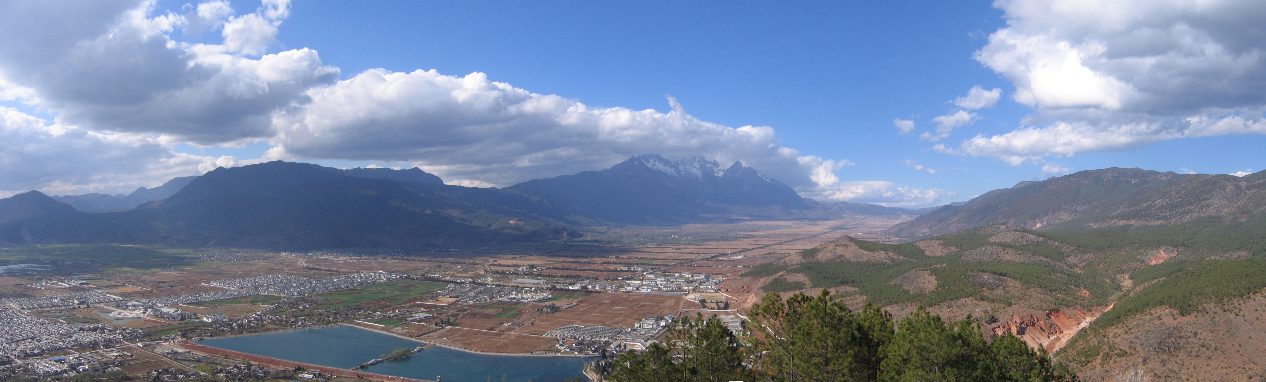 Looking west towards the mountains, and the outskirts of Lijiang, China - Yunnan Province.